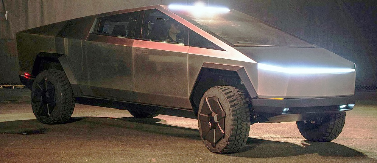 Photo of a Tesla Cybertruck electric pickup truck outside after the unveiling event.